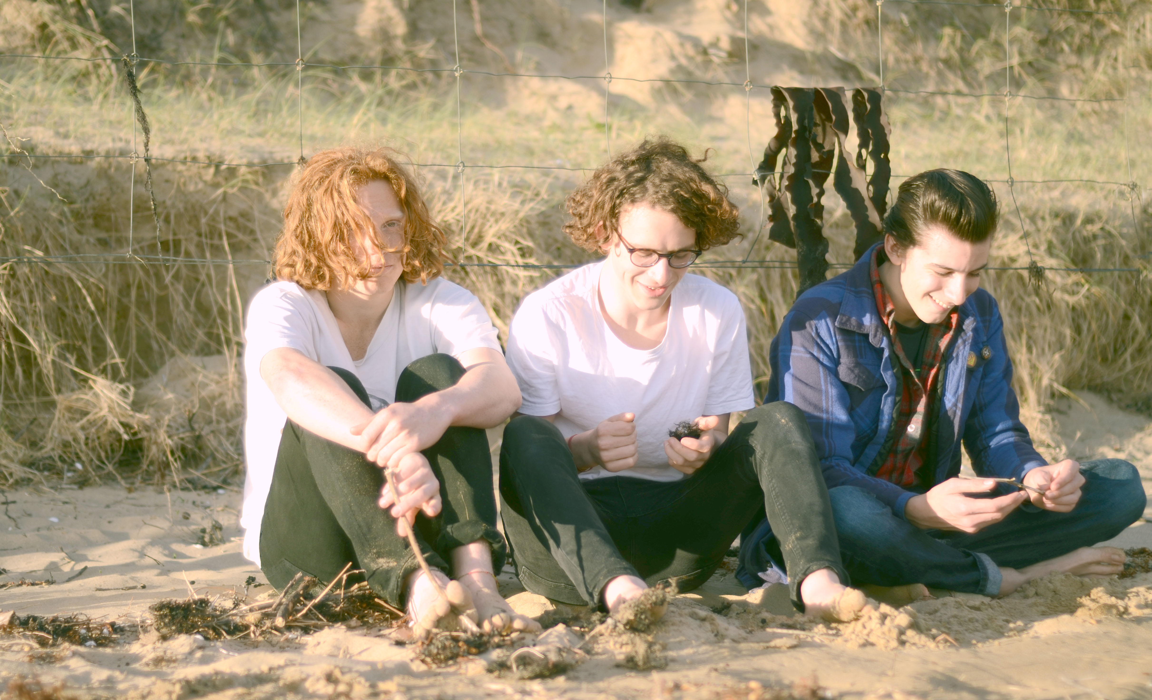 tiny giants 2014 at the beach